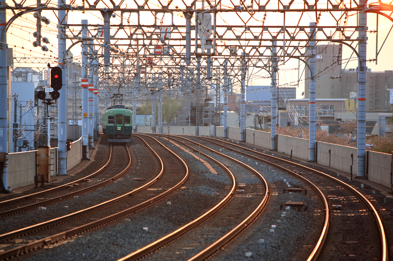 Keihan 2600 series EMU (2624) on Keihan Main Line